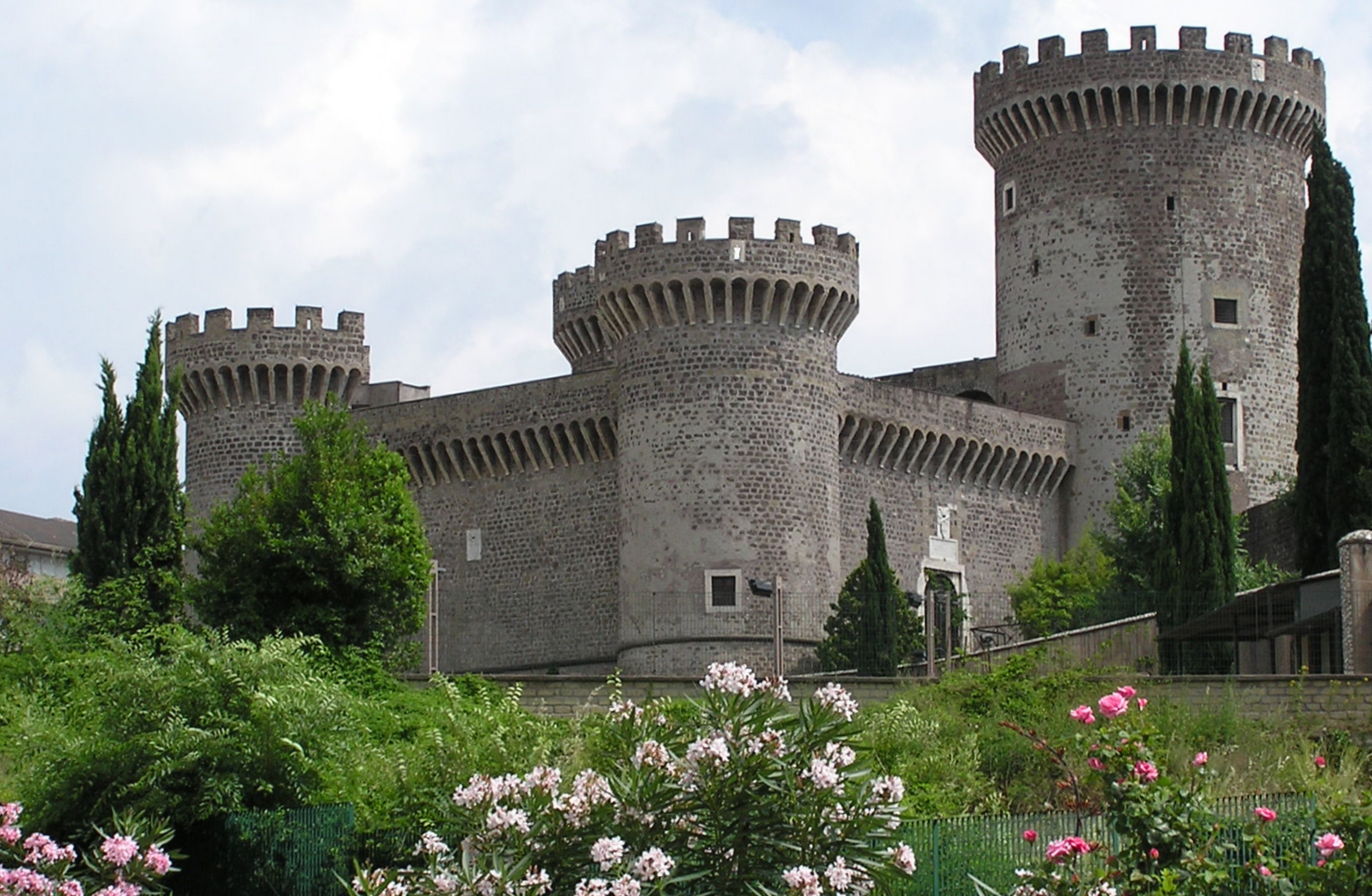 The castle of Rocca Pia in the hill top town of Tivoli, just outside Rome, Italy. The castle was built in 1461 by command of Pope Pius II.